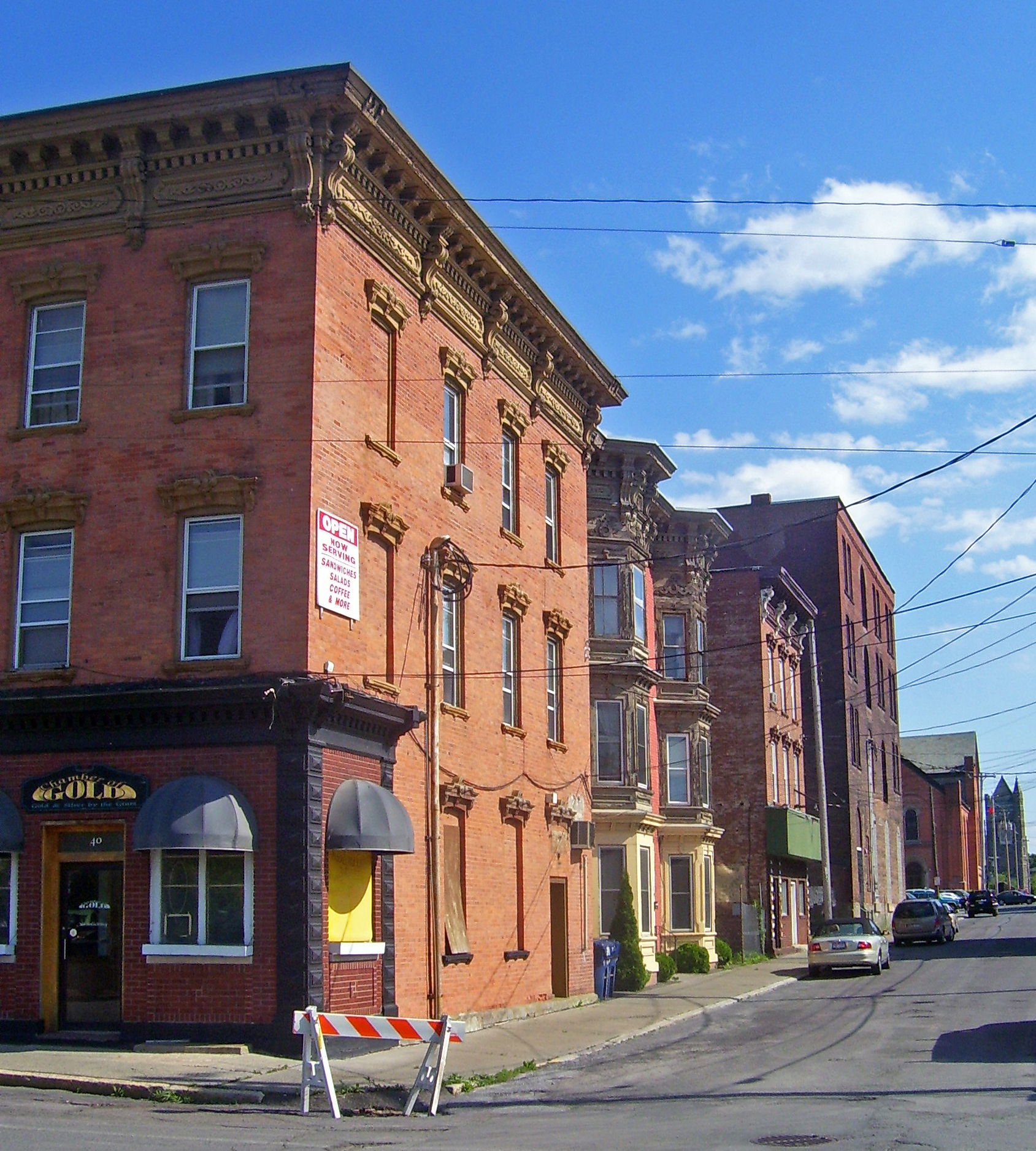 View south along Canvass Street from Oneida Street in downtown Cohoes, NY, USA